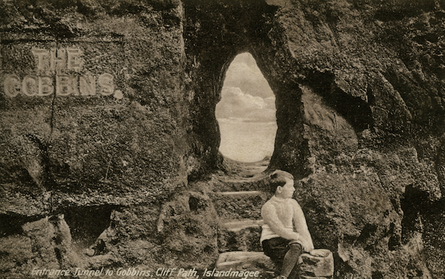 A picture of Wise's Eye, gateway to The Gobbins on an old postcard